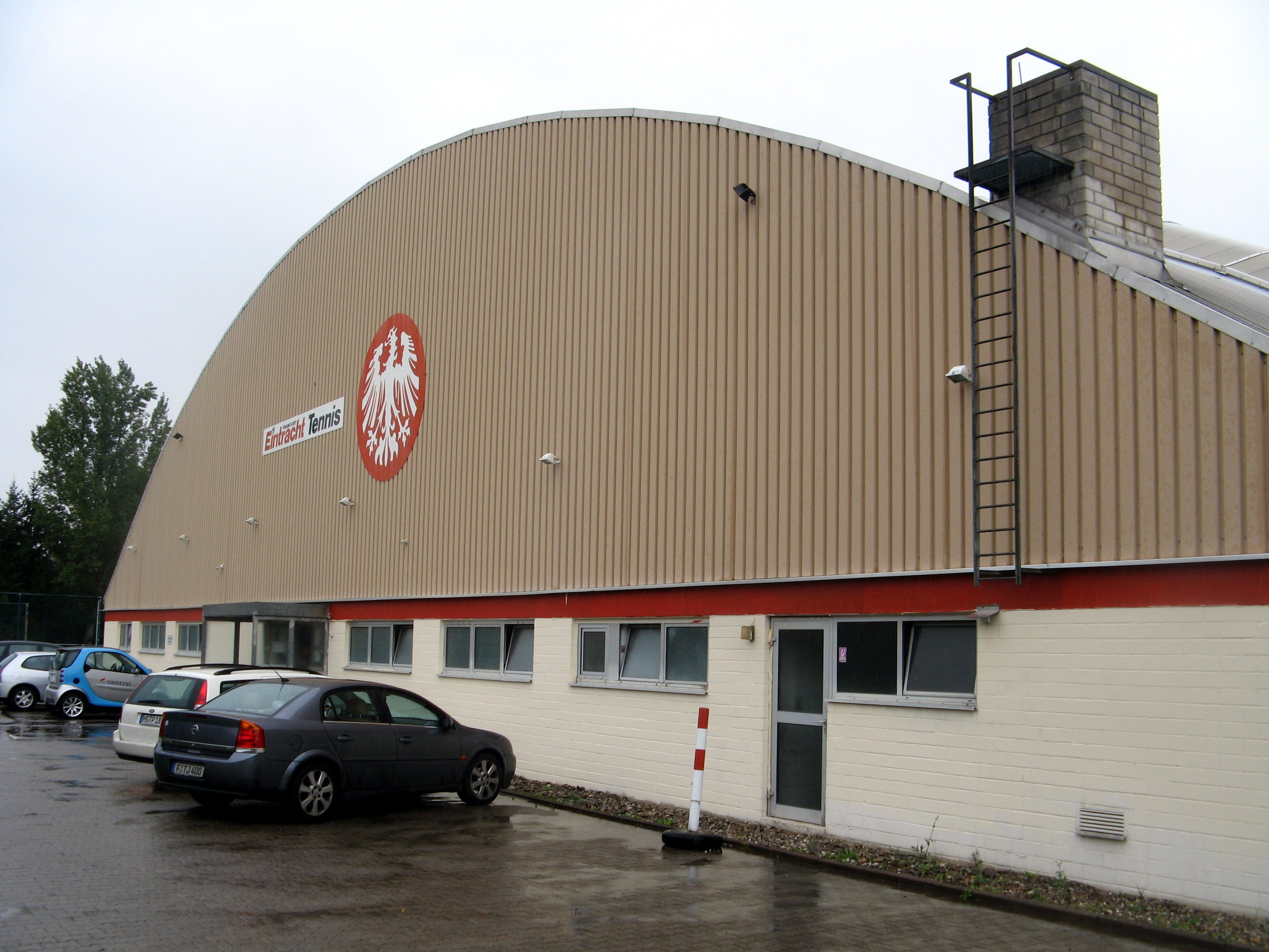 Tennis Indoor Court near sports ground Stadium at Riederwald of Eintracht Frankfurt in the borrough of Seckbach in Frankfurt, Hesse, Germany